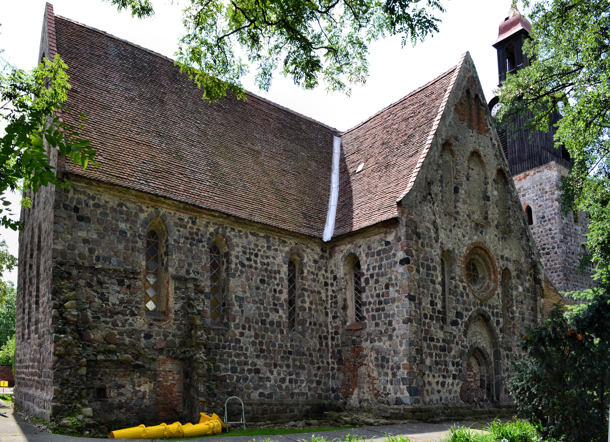 Holy Spirit church in Moryń, Poland